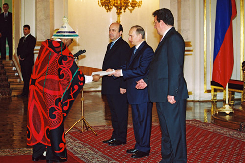 THE KREMLIN, MOSCOW. Presentation of credentials. Tekiso Hati, Ambassador of the Kingdom of Lesotho, presenting his credentials to the Russian President.